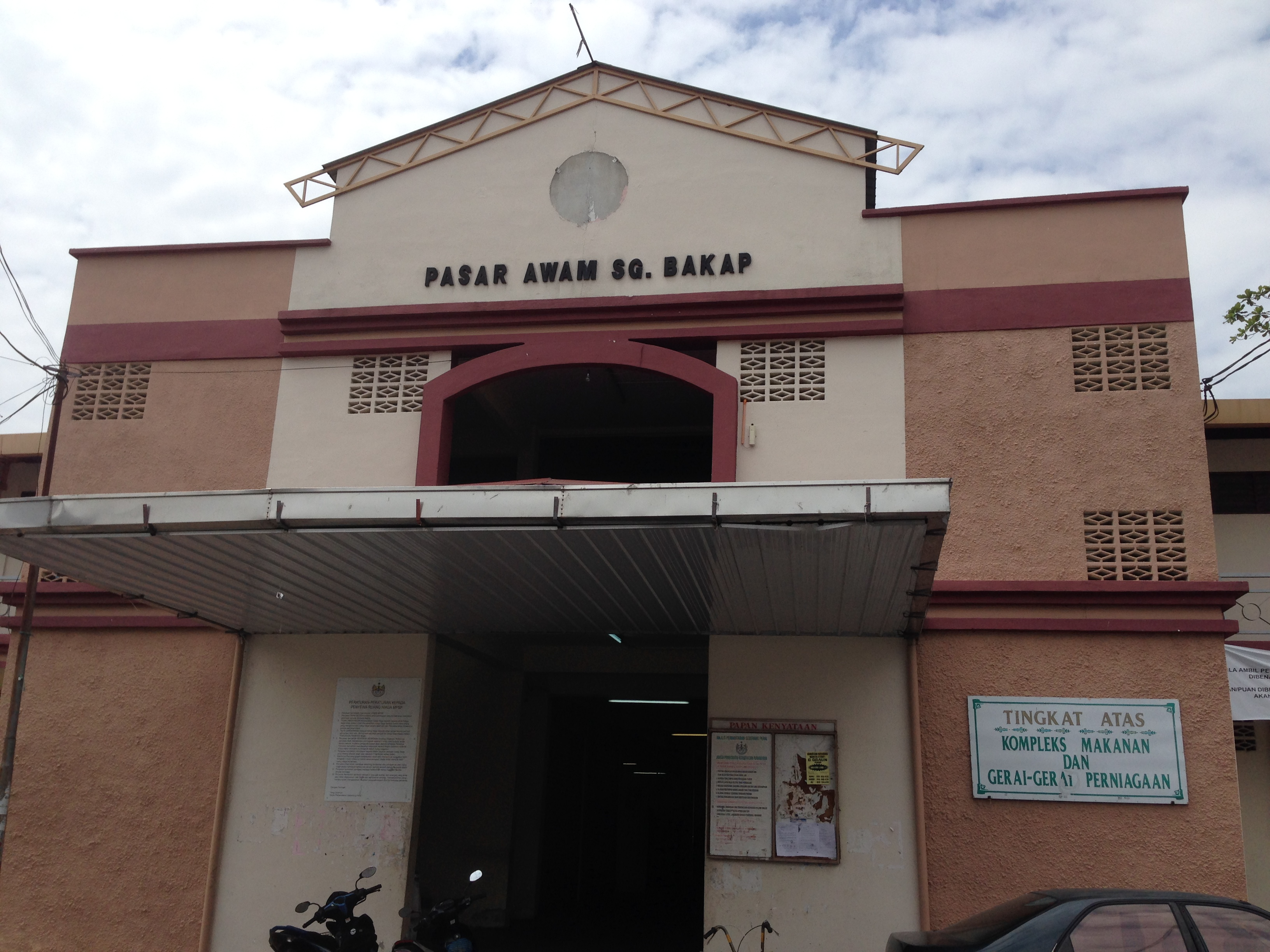 Public market in Sungai Bakap, Penang